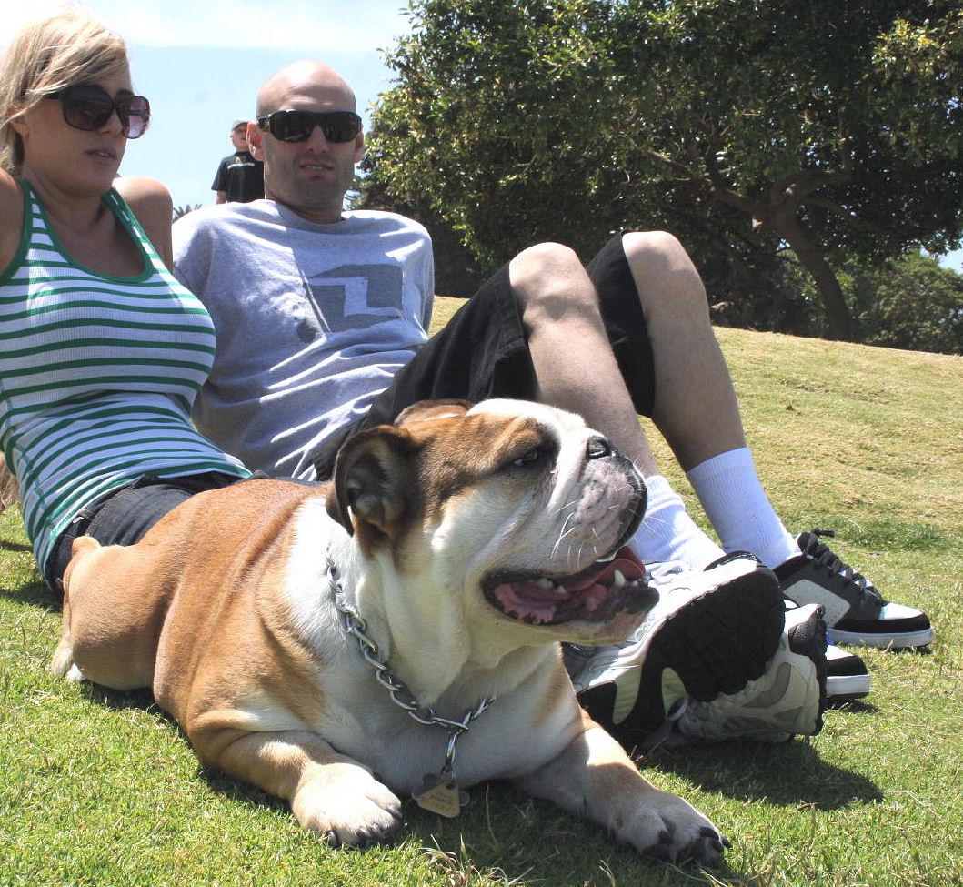 Couple sitting on grass with British bulldog